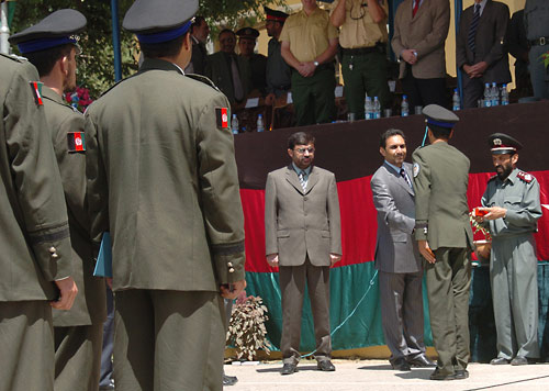 Ahmad Zia Massoud, first deputy vice president of Afghanistan, presents a new police officer with his diploma at the Kabul Police Academy.